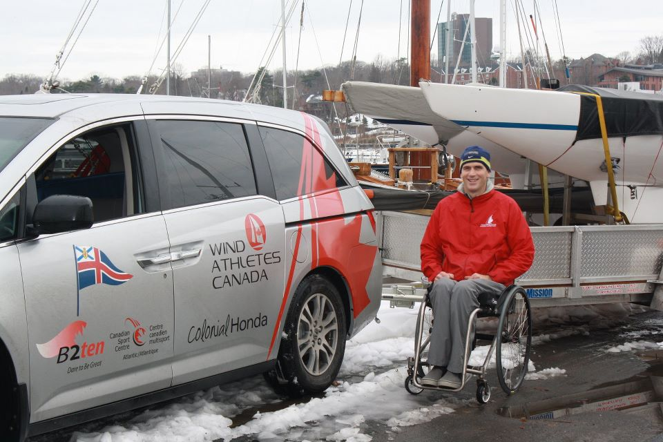 Paul Tingley at RNSYS